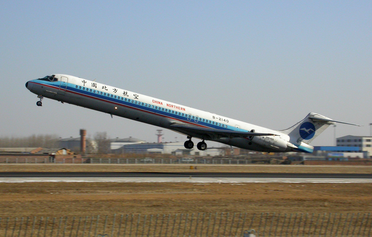 China Northern Airlines MD-82 take off in Beijing. B-2140. Jan 18, 2004. taken by myself.